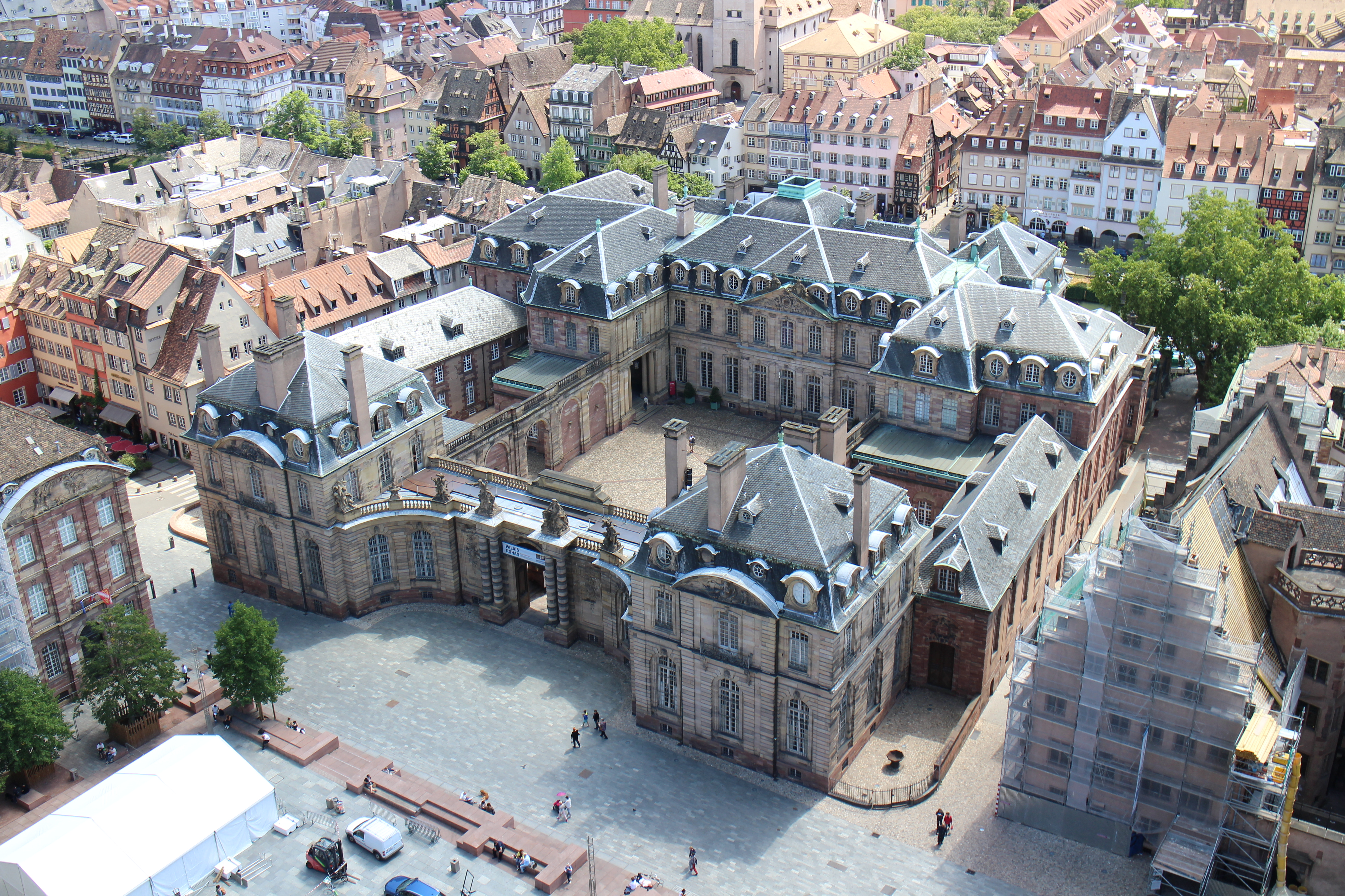 Palais Rohan, Strasbourg, seen from above